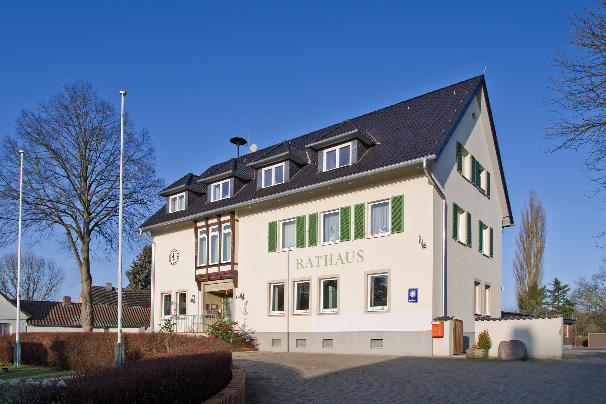 Town hall and police station, building "Lüchower Strasse 13/a" in Clenze (district Lüchow-Dannenberg, northern Germany).